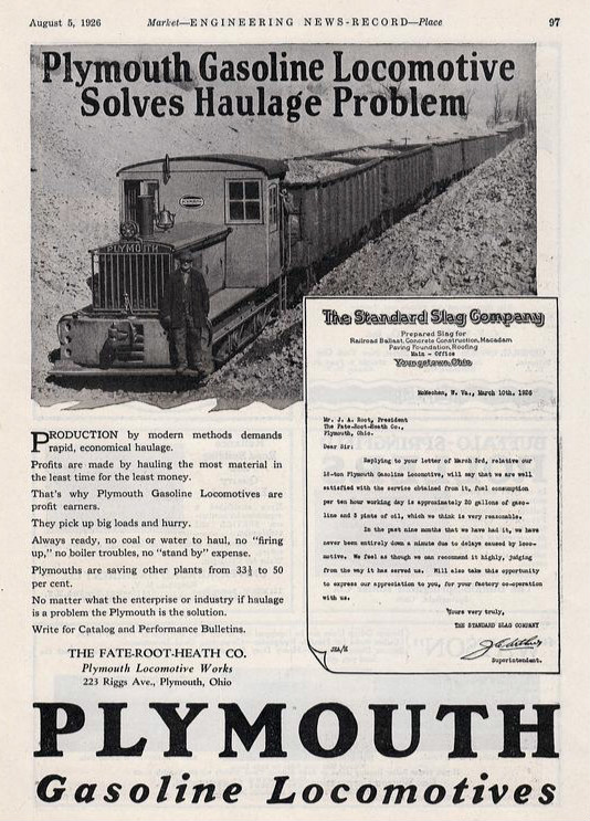 Ad for Plymouth Locomotive Works in the publication Engineering News.